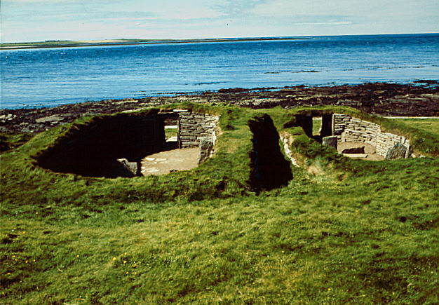 Knap of Howar, Papa Westray, Orkney